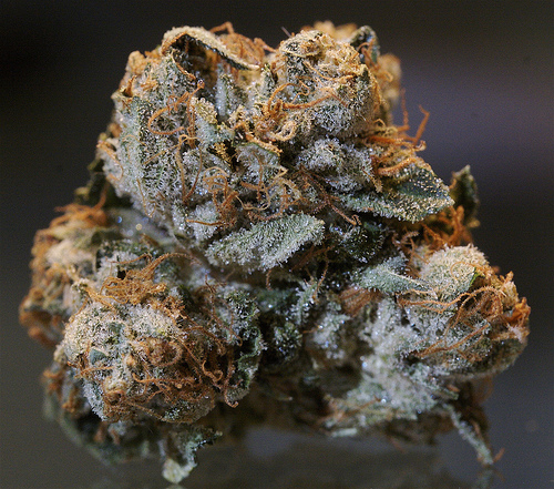 The dried bud of a Kush cannabis plant